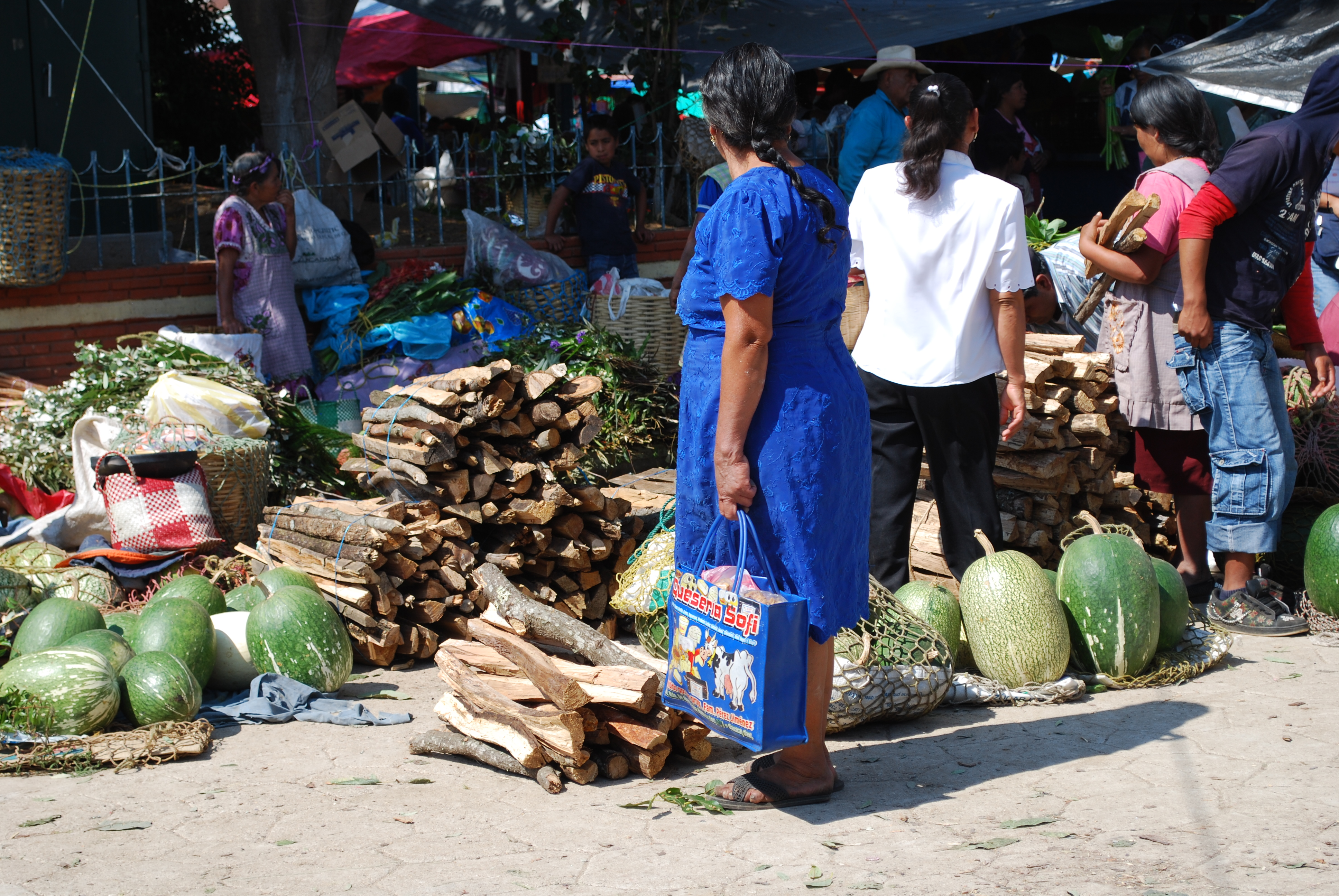 Firewood section of the Thursday weekly market in Zaachila, Oaxaca, Mexico